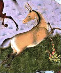 Painting of Akvan, The Onager-Div in The Shahnama of Shah Tahmasp